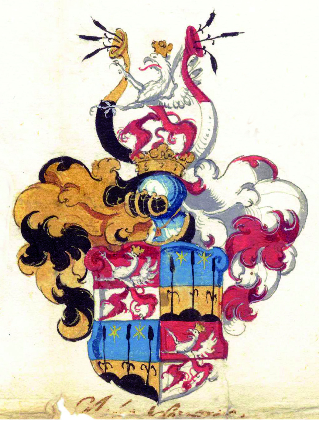 Coat of Arms of Daniel Moser